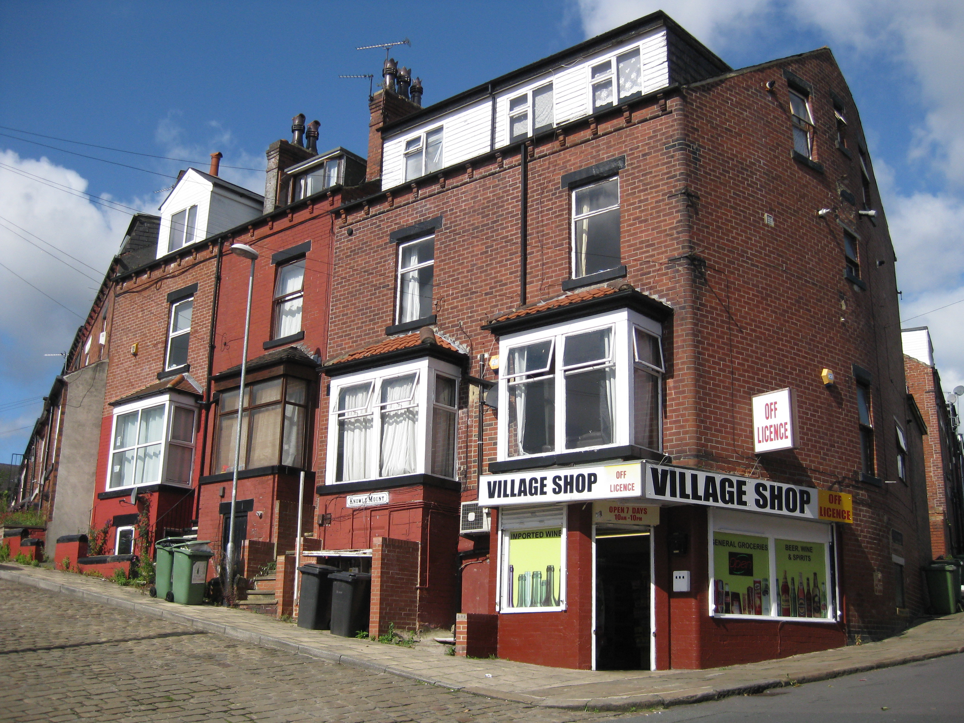 Village Shop in terraced houses, corner of Knowle Mount and Stanmore Hill, Burley, Leeds LS4 2PP.